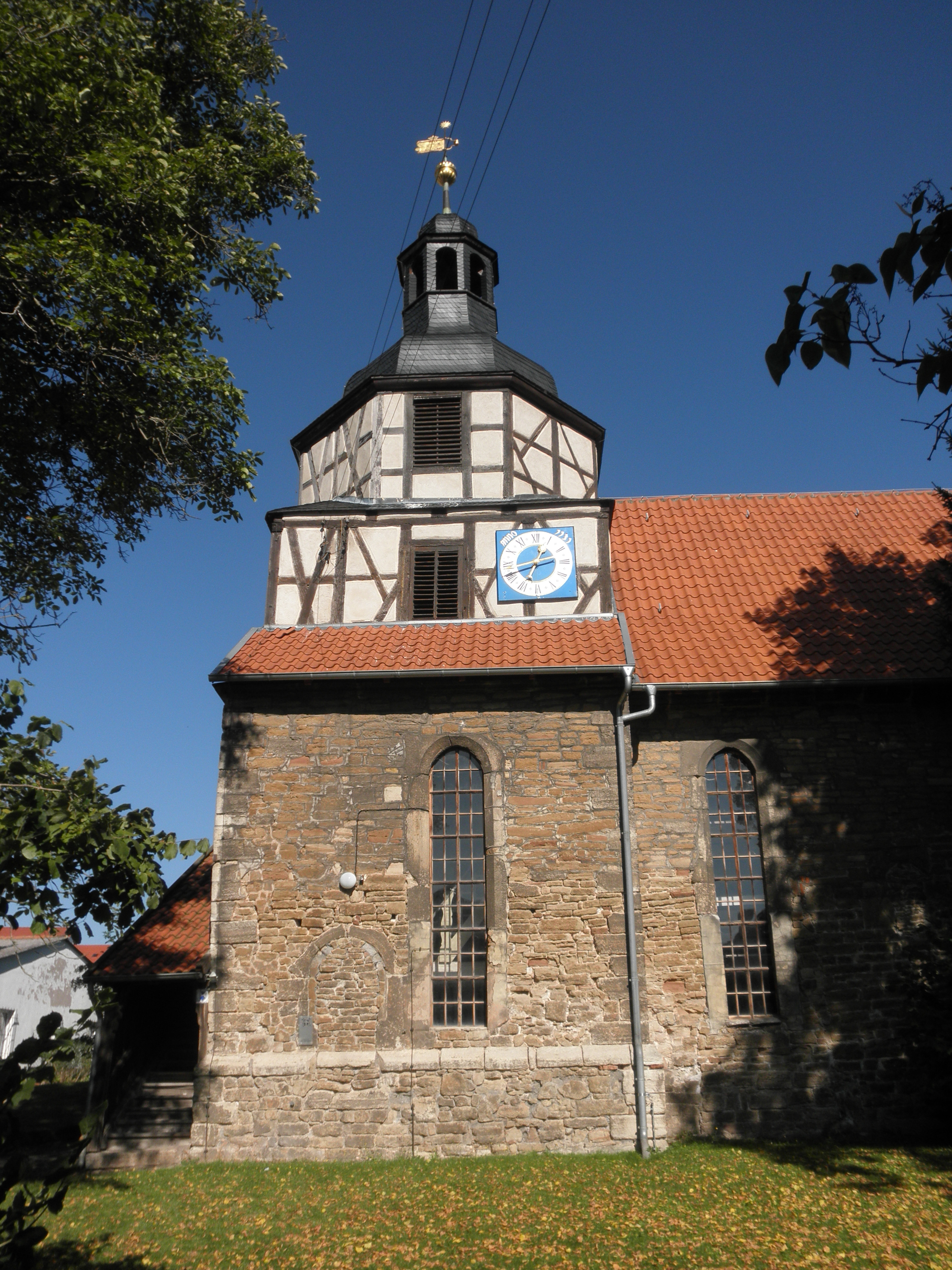 Church in Großwerther (Werther) in Thuringia